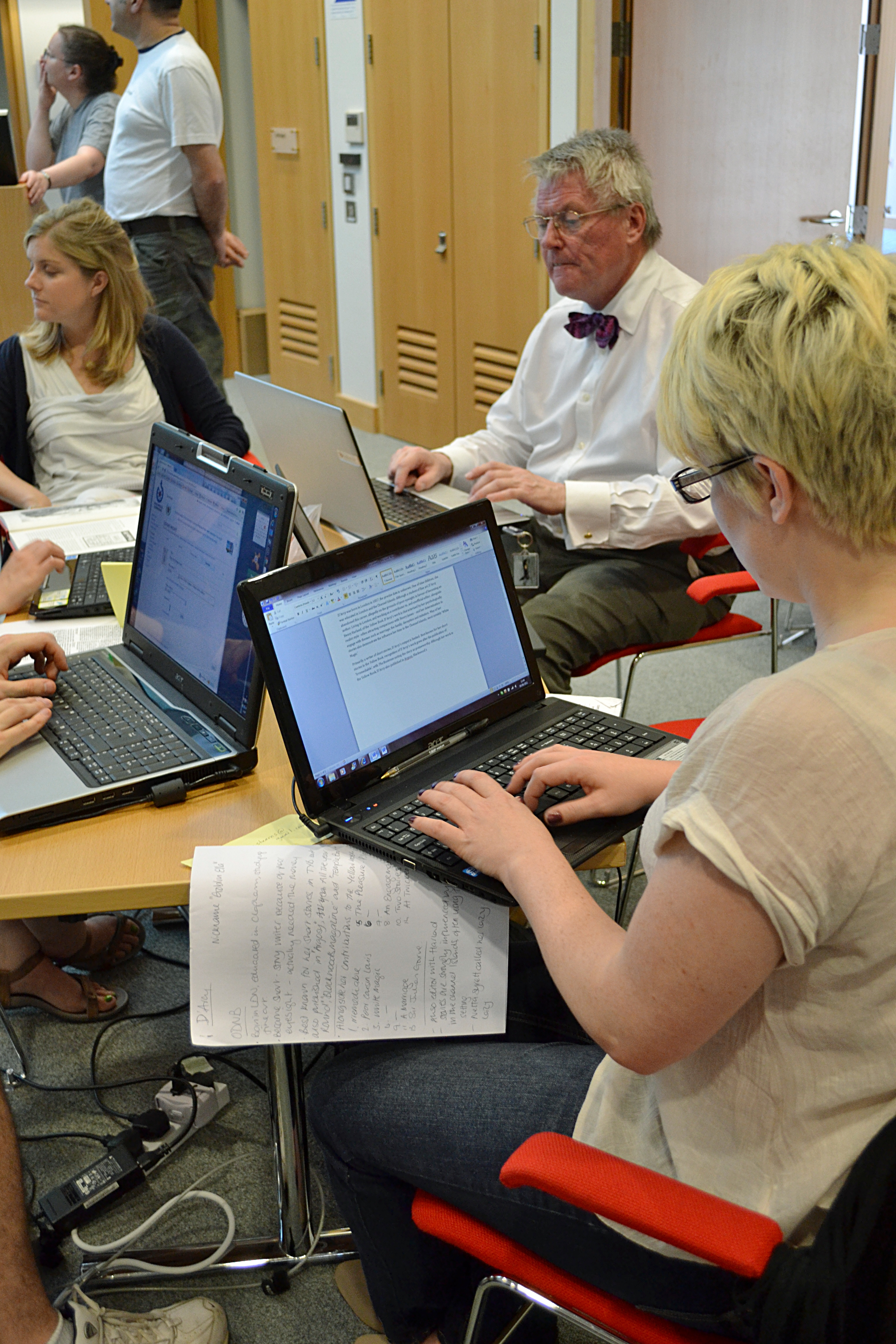 Work in progress on a Victorian literature topic at the British Library / Wikimedia UK Editathon 4 June 2011. With bow tie, User:Tim riley.